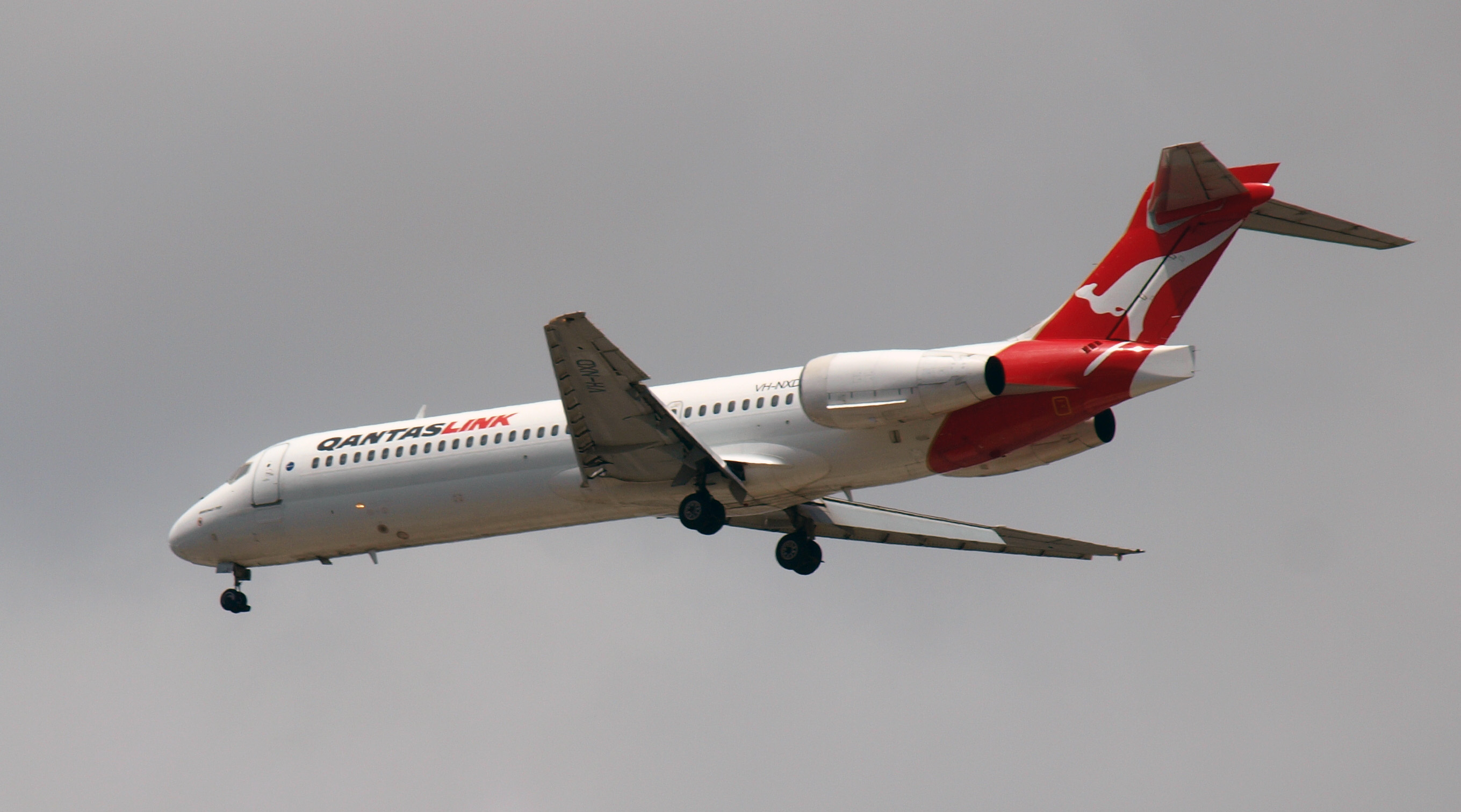 QantasLink Boeing 717-200 on approach to land.